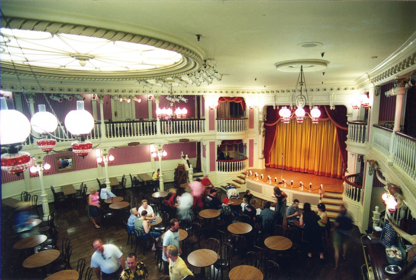 A photo of the Golden Horseshoe Saloon.